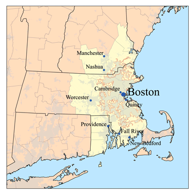 This is a map of the Greater Boston Metro area I made using U.S. Census Bureau data. The light gray shading indicates urbanized areas with Greater Boston as defined by urbanized areas outlined. The Metropolitan Combined Statistical Area is shown in yellow (excluding non-Metro counties). The Providence metro area was added to the Boston CSA in 2005.